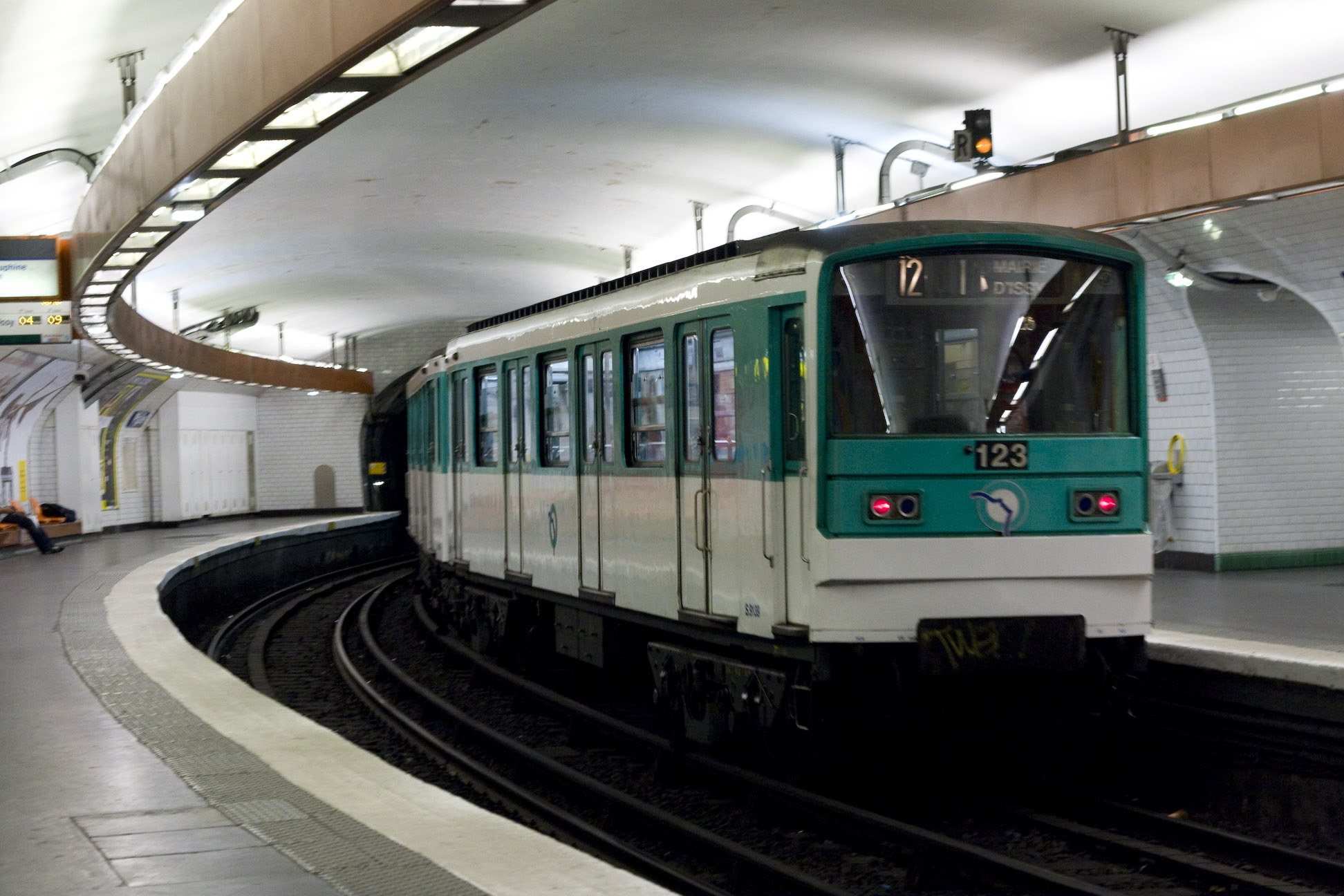 MF 67 on Pigalle station, Line 12 of Paris Metro.